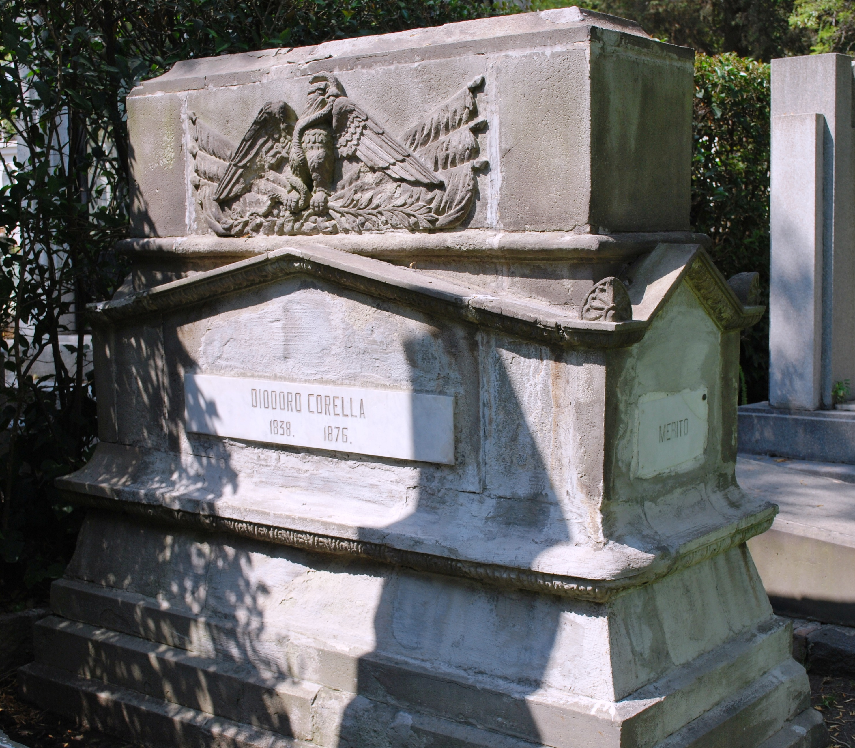 Tomb of Diodoro Corella in the Panteon Civil de Dolores cemetery in Mexico City